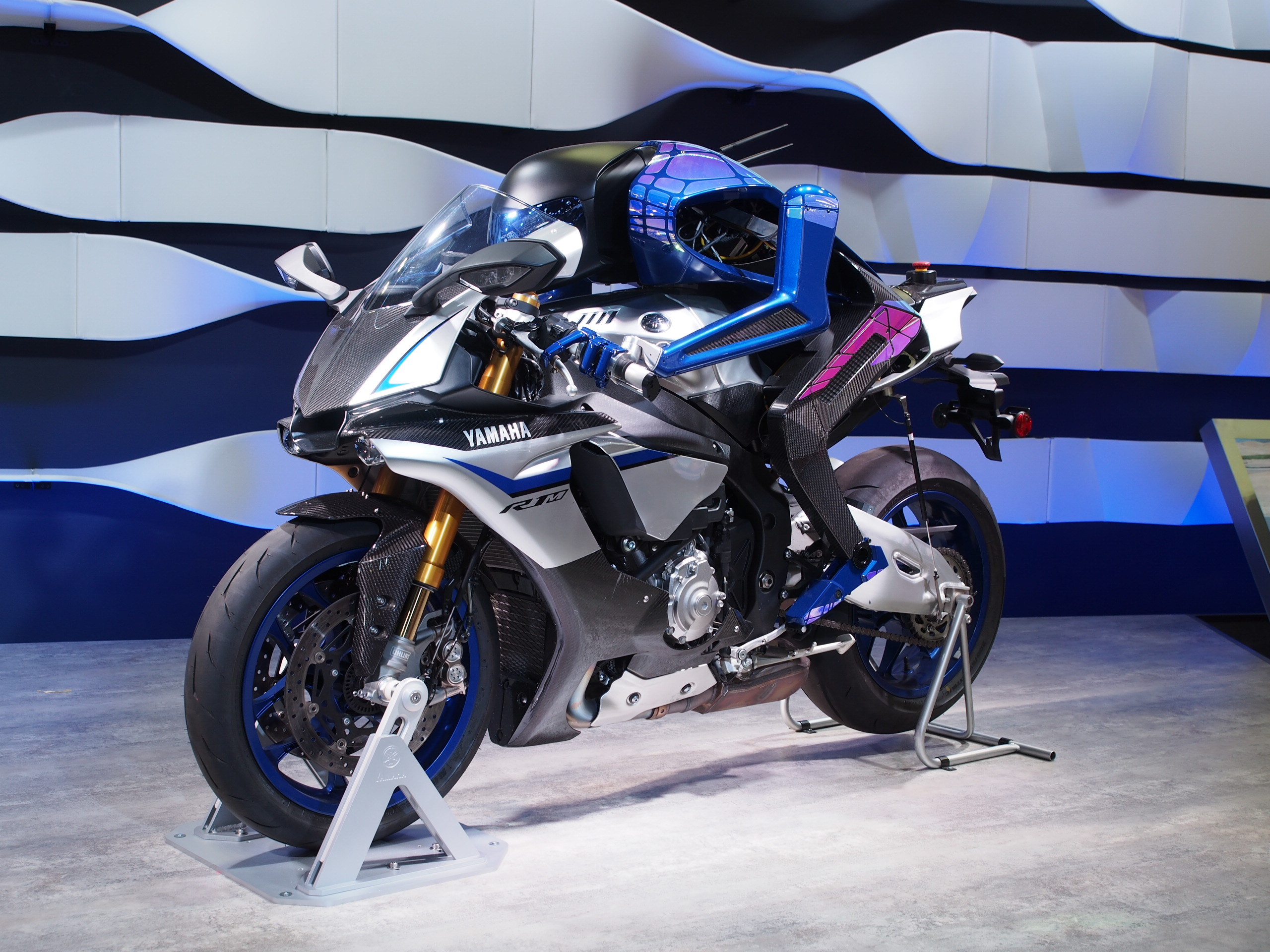 Yamaha MOTOBOT Ver.2, exhibited at the Tokyo Motor Show 2017.